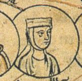 Liutgarde